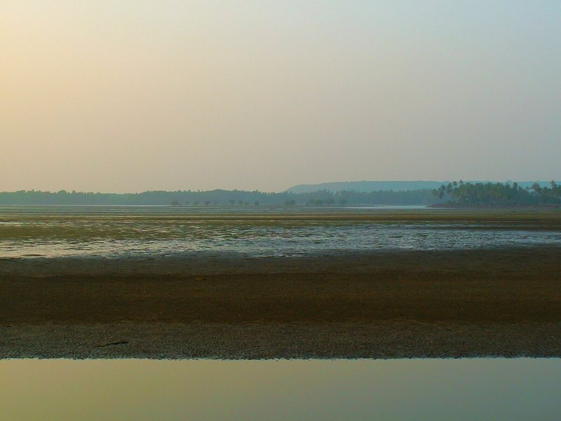 Chapora River Delta, Evening Low Tide